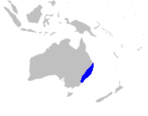 Plant family Doryanthaceae distribution map